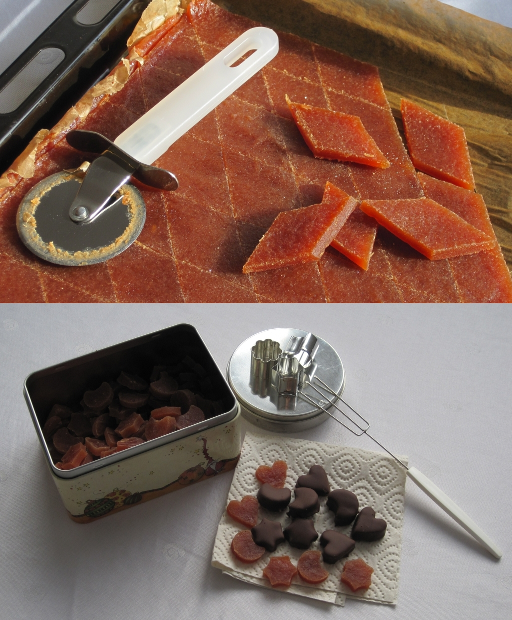 Home made quince paste, German type. In Spain known as dulce de membrillo.